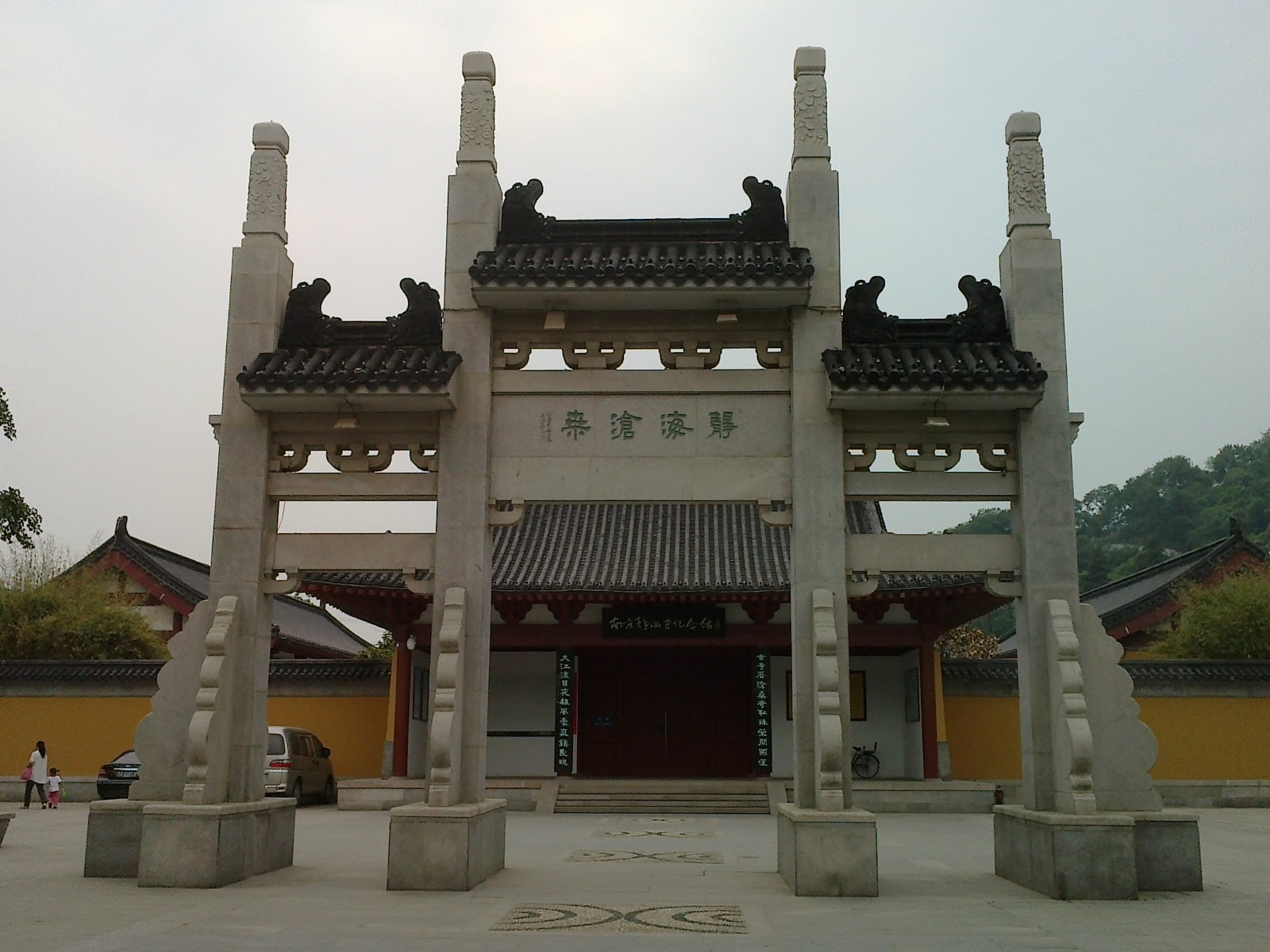 Paifang of Jinghaisi Museum,Nanjing